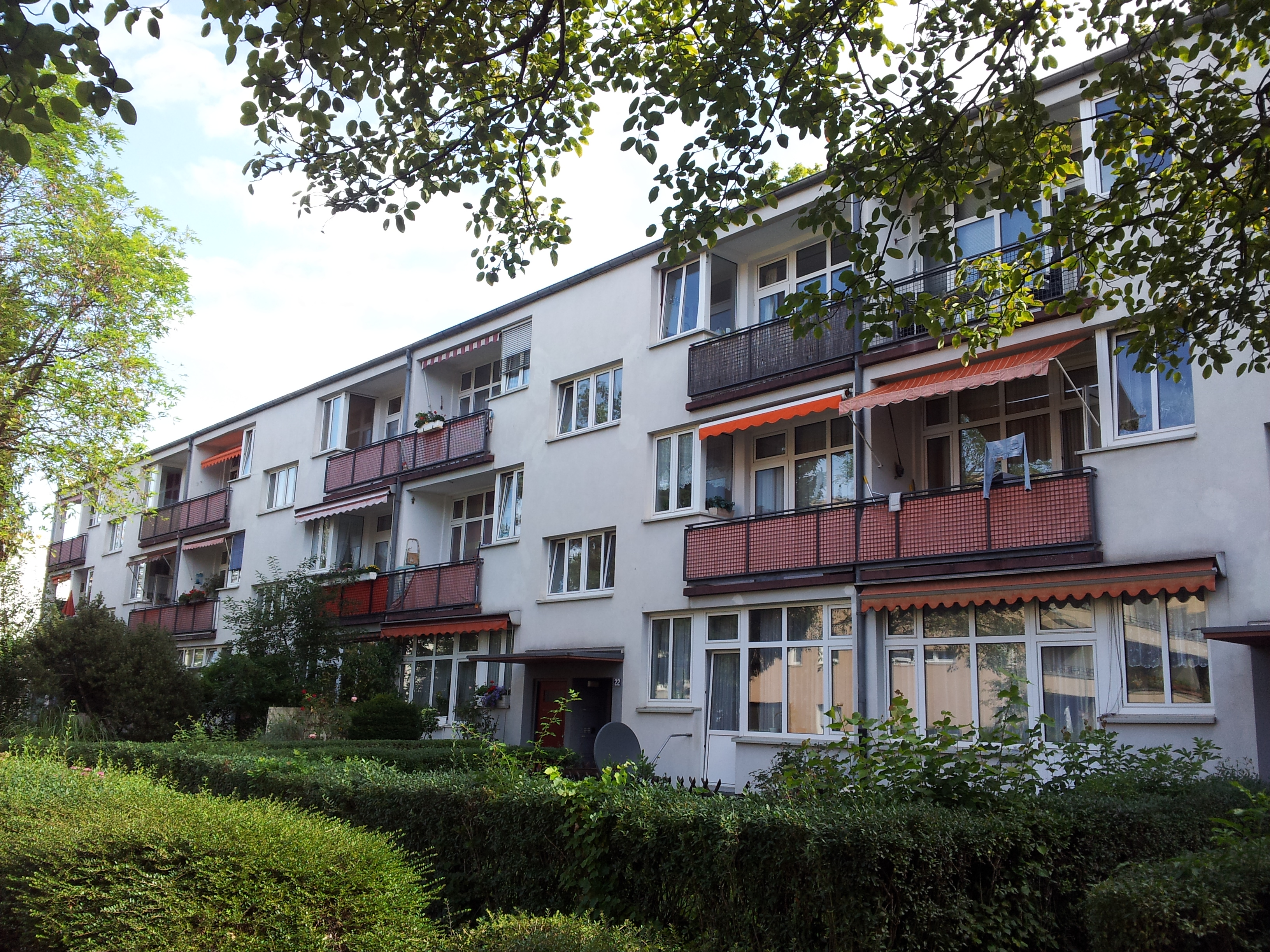 Houses designed 1929 by Mart Stam during the New Frankfurt project.